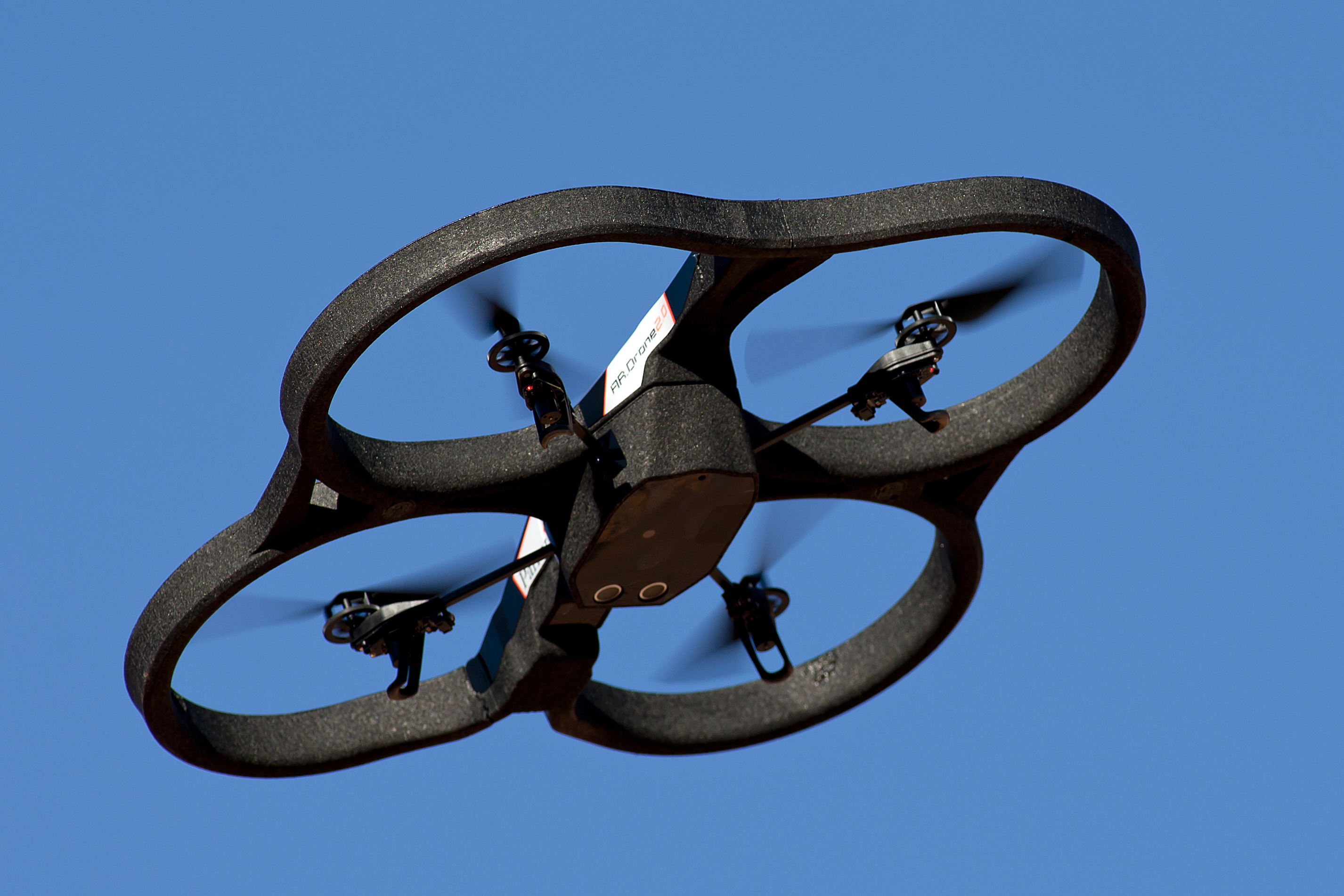 Parrot AR.Drone 2.0 - indoor hull